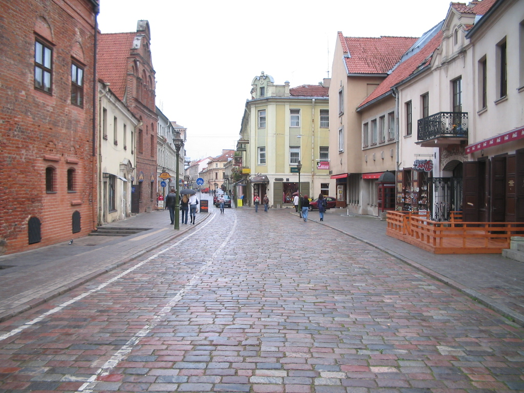 Vilnius Street (Middle), Kaunas (Lithuania).